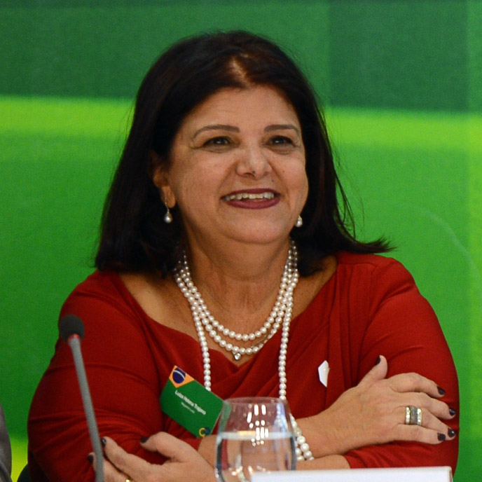 Luiza Helena Trajano, CEO of Magazine Luiza, a Brazilian chain of consumer electronics and appliances stores, pictured at a meeting of women entrepeneurs with Brazilian president Dilma Rousseff.